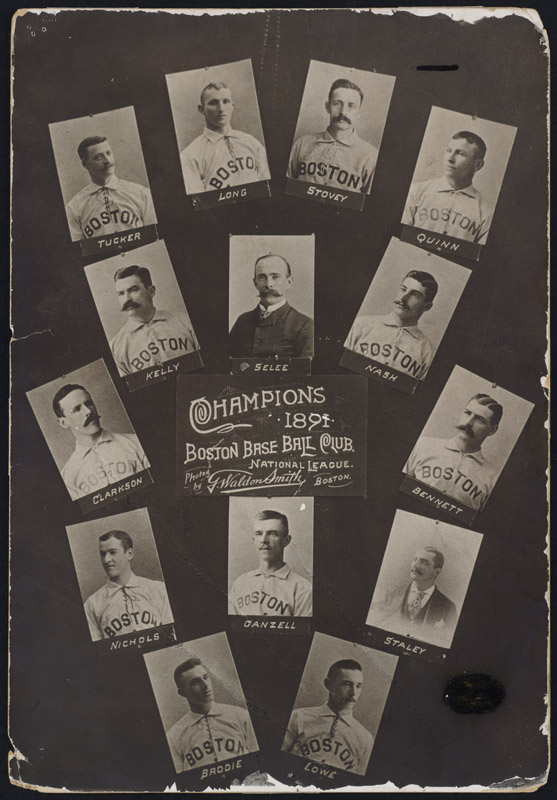 File name: 06_06_000194 Title: Boston National League Team, 1891 Creator/Contributor: Smith, G. Waldon (photographer) Created/Published: Date created: 1891 Physical description: 1 photographic print : silver print Description: Photographic reproduction of an array of indivicual portraits of the 1891 Boston Nationals. Players portraits, clockwise from top left: Tommy Tucker, first baseman, Herman Long, shortstop, Harry Stovey, outfielder, Joe Quinn, second baseman, Billy Nash, third baseman, Charlie Bennett, catcher, Harry Staley, pitcher, Bobby Lowe, outfielder, Steve Brodie, outfielder, Kid Nichols, pitcher, John Clarkson, pitcher, King Kelly, catcher. Center top: Manager Frank Selee. Center bottom: Charlie Ganzell, catcher. Genre: Photographic prints; Portrait photographs; Montages Subjects: Baseball players; Boston Red Sox (Baseball team) Notes: Photo caption: Champions 1891, Boston Base Ball Club. National League.; McGreevey no. 194 Location: Boston Public Library, Print Department Rights: No known restrictions